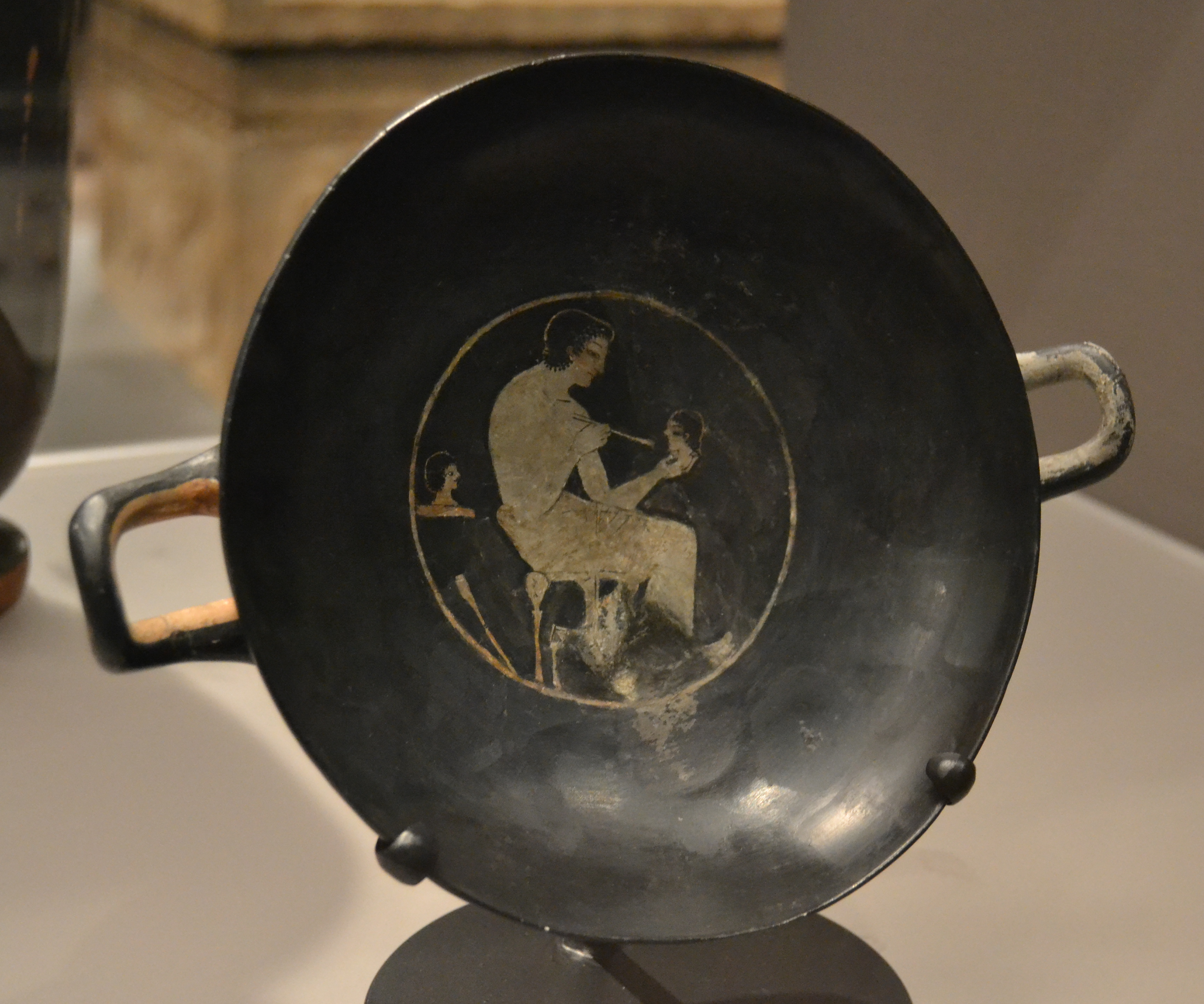 Attic red-figure kylix depicting a ceramicist decorating a head vase by the Ambrosios painter; about 510 BC; Alice and Helen Colbourn Found, 1968, Museum of Fine Arts Boston 68.292